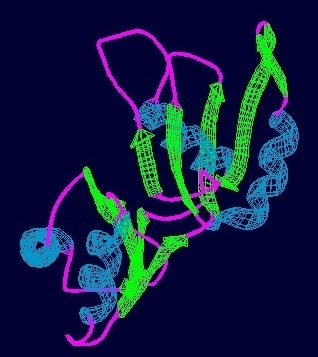 Prp24_domains_1_and_2_image.jpg